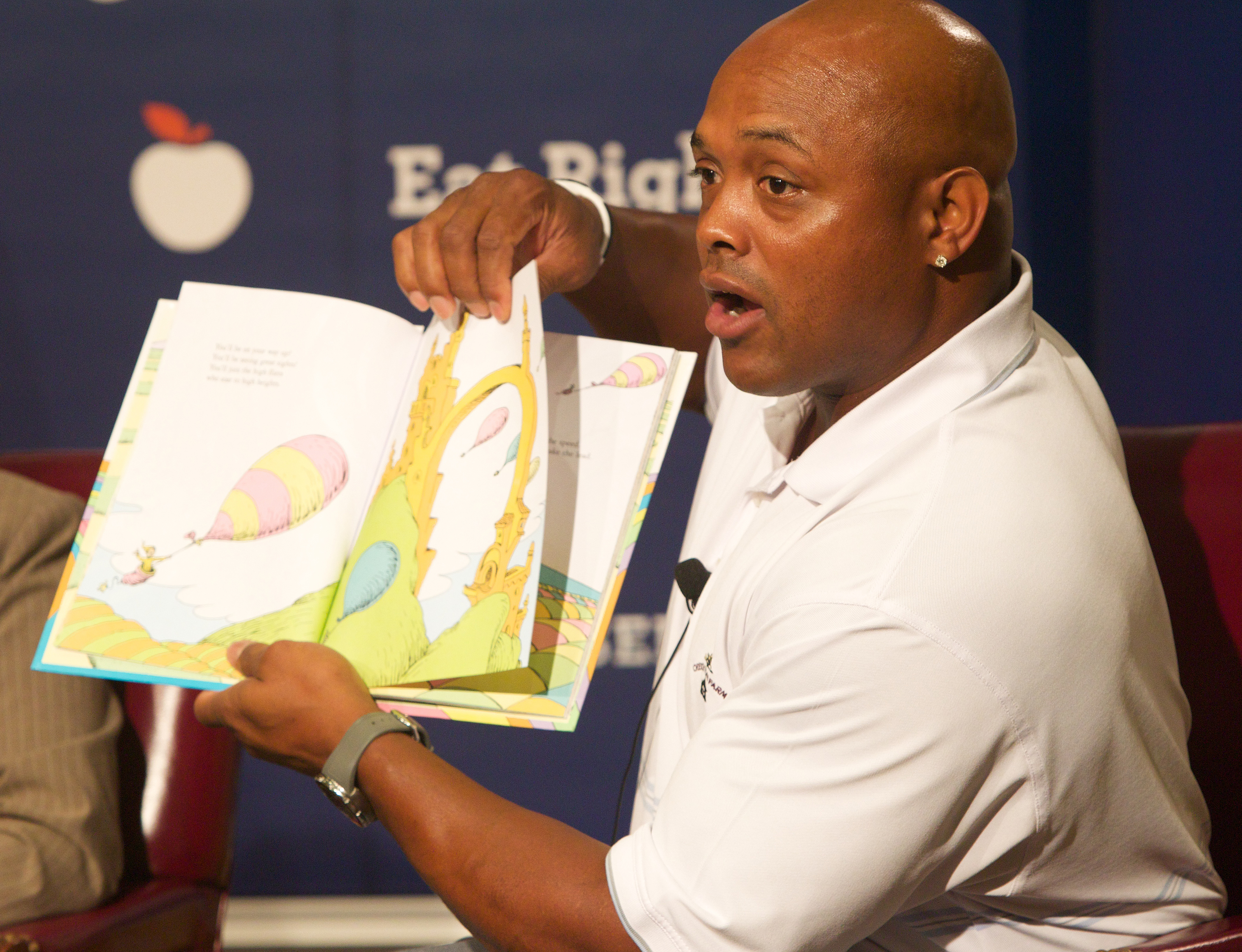 Brian Mitchell reads aloud from Dr. Seuss' Oh, the Places You'll Go! during a 2012 United States Department of Education event.